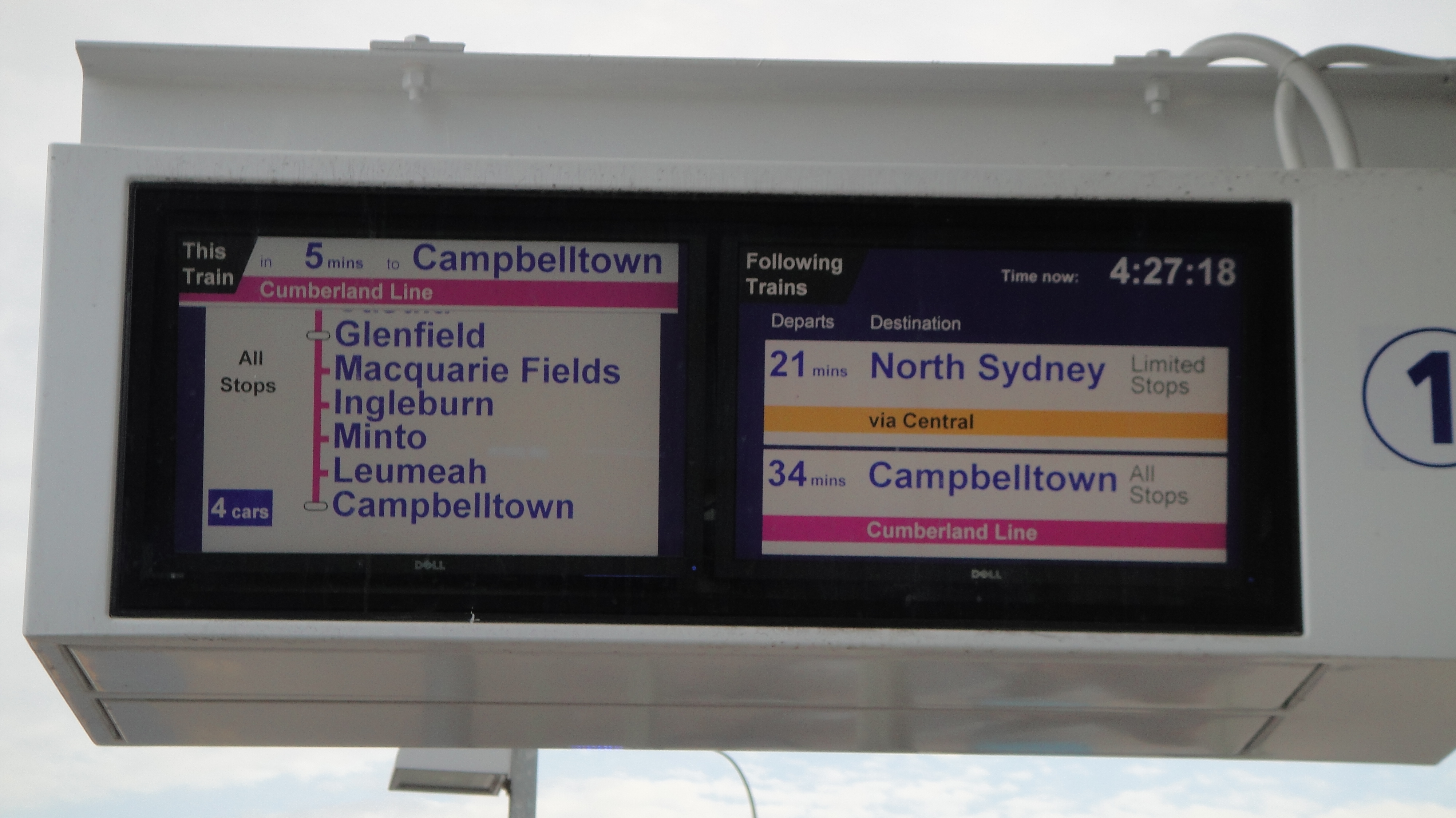 CityRail indicator board at Blacktown, New South Wales. CityRail indicator board at Blacktown station, Platform 1.